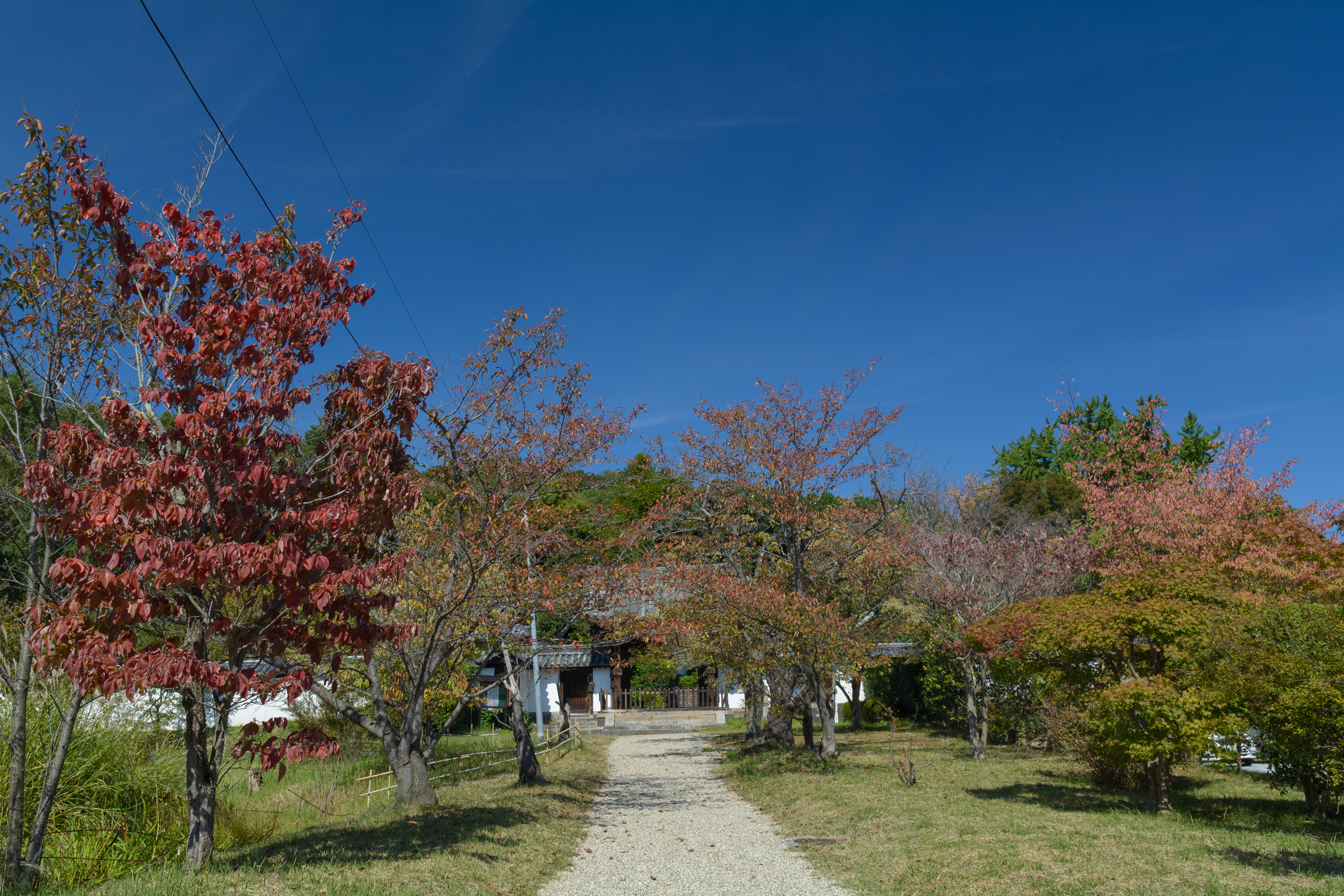 Konbuin (Horen-cho, Nara-City, Nara Prefecture)